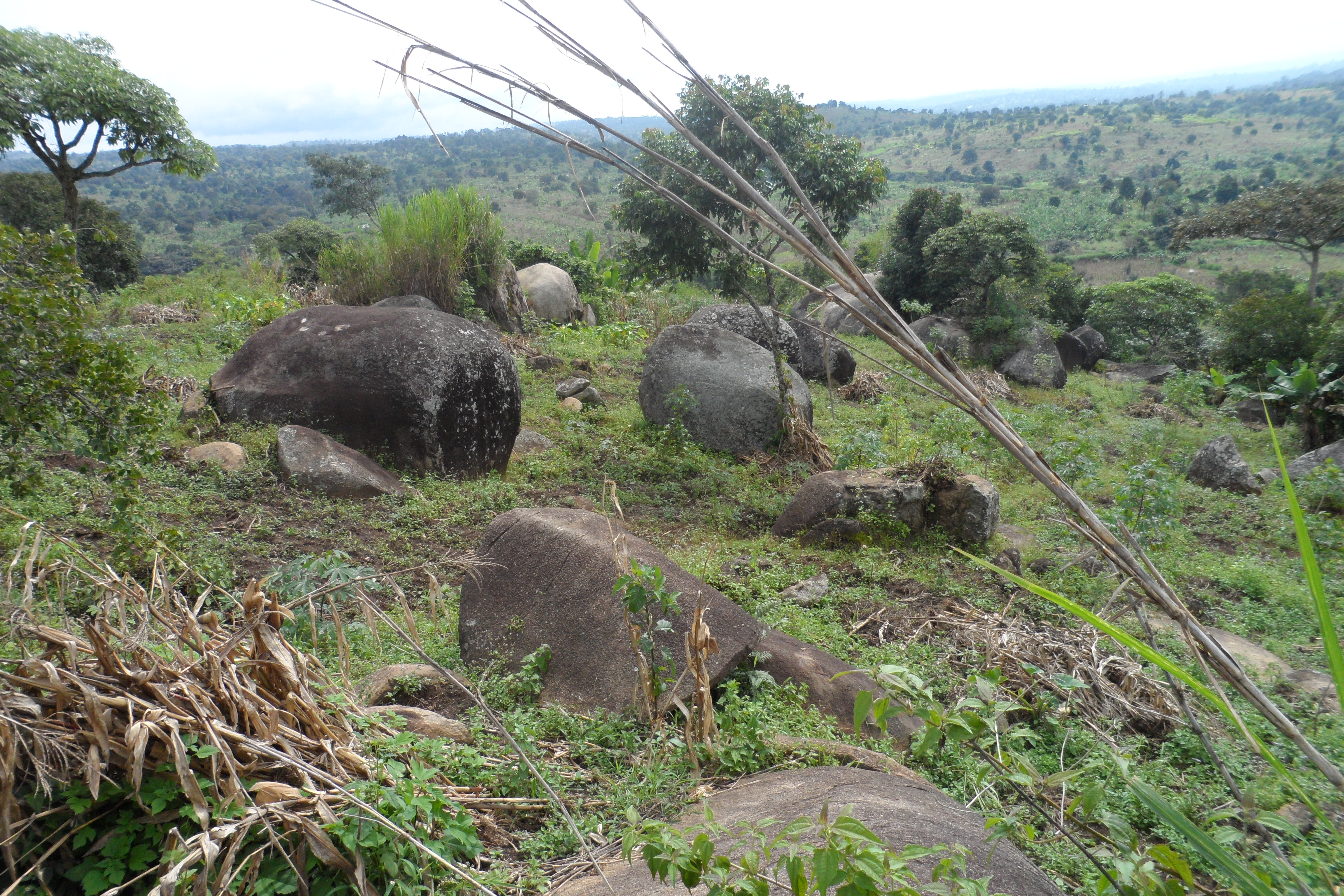 Exposure of granitic rocks in the Bamougoum area, Bafoussam